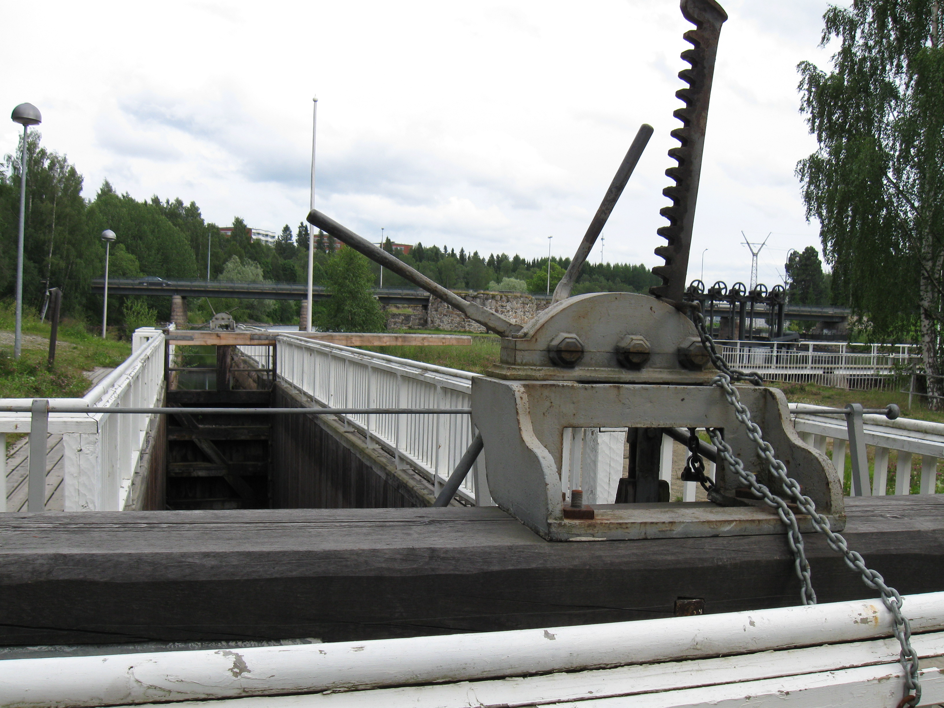 A renowed canal through which tar boats were taken at Ämmäkoski rapids of the Kajaani river in Kajaani, Finland.